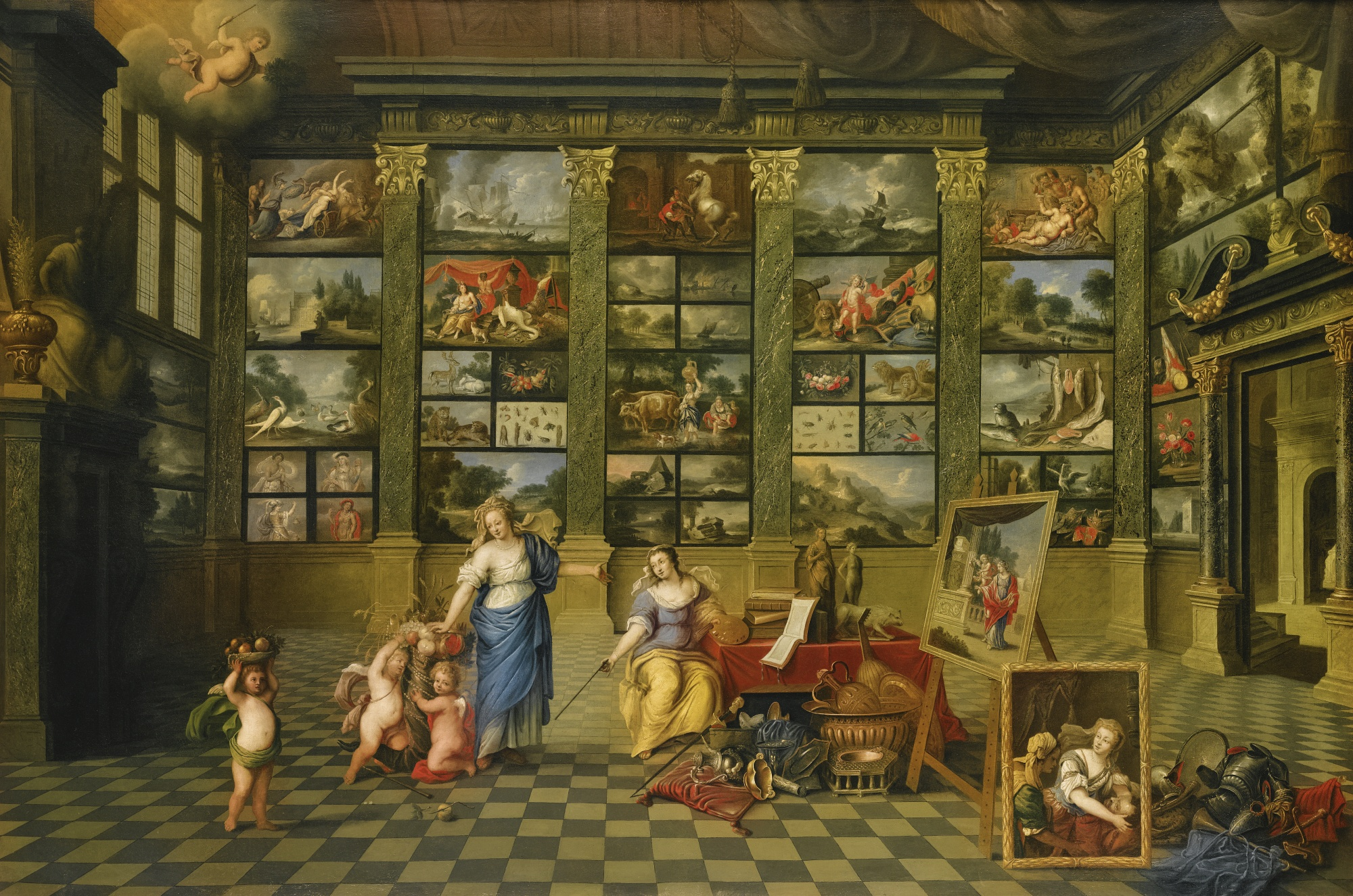 This image is available from the Netherlands Institute for Art Historyunder digital ID 49544. This tag does not indicate the copyright status of the attached work. A normal copyright tag is still required. See Commons:Licensing.